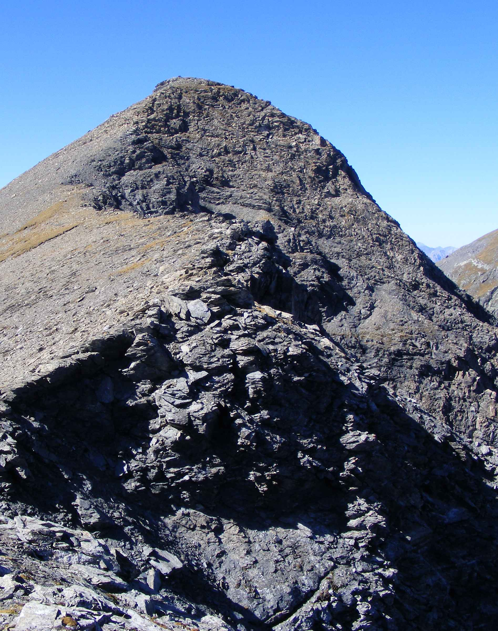 Fea Nera (Cottian Alps, TO, Italy)